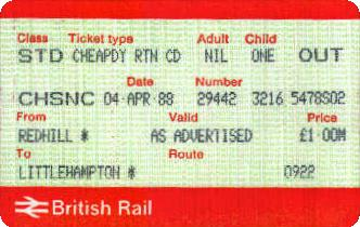 APTIS ticket showing the "CHSNC" status code. Scanned from my own collection.